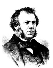 Michael Nairn (1804–1858)